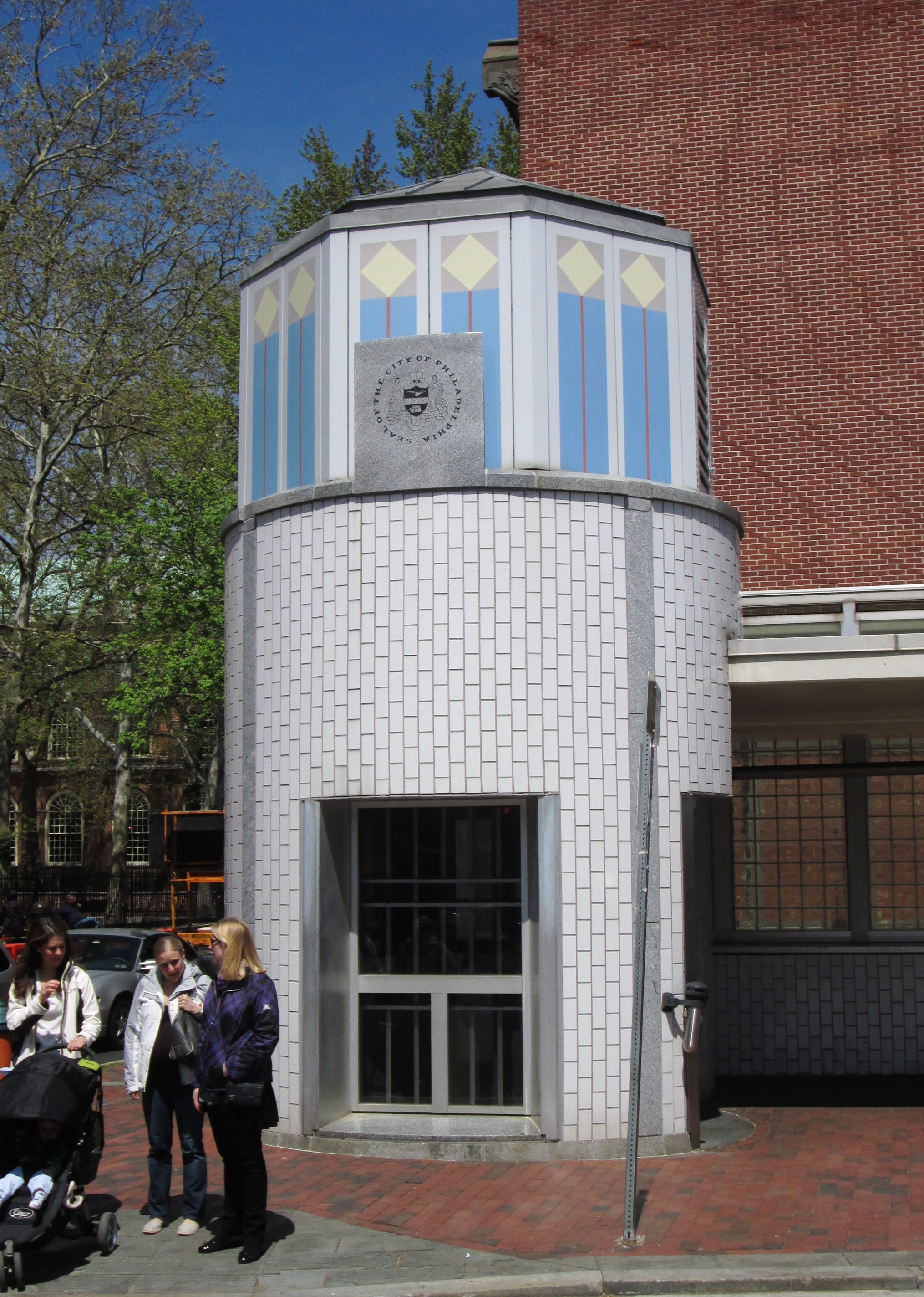 The north elevator entrance to the 2nd Street station on SEPTA's Market-Frankford subway line at 2nd and Market Streets in the Old City neighborhood of Philadelphia was built in 1976-79 and was designed by Murphy Levy Wurman. (Source: Philadelphia Architecture: A Guide to the City)